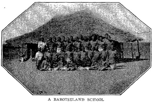 Pictured: An Adventist school at Barotseland (now Rusangu). Forerunner to Rusangu University.